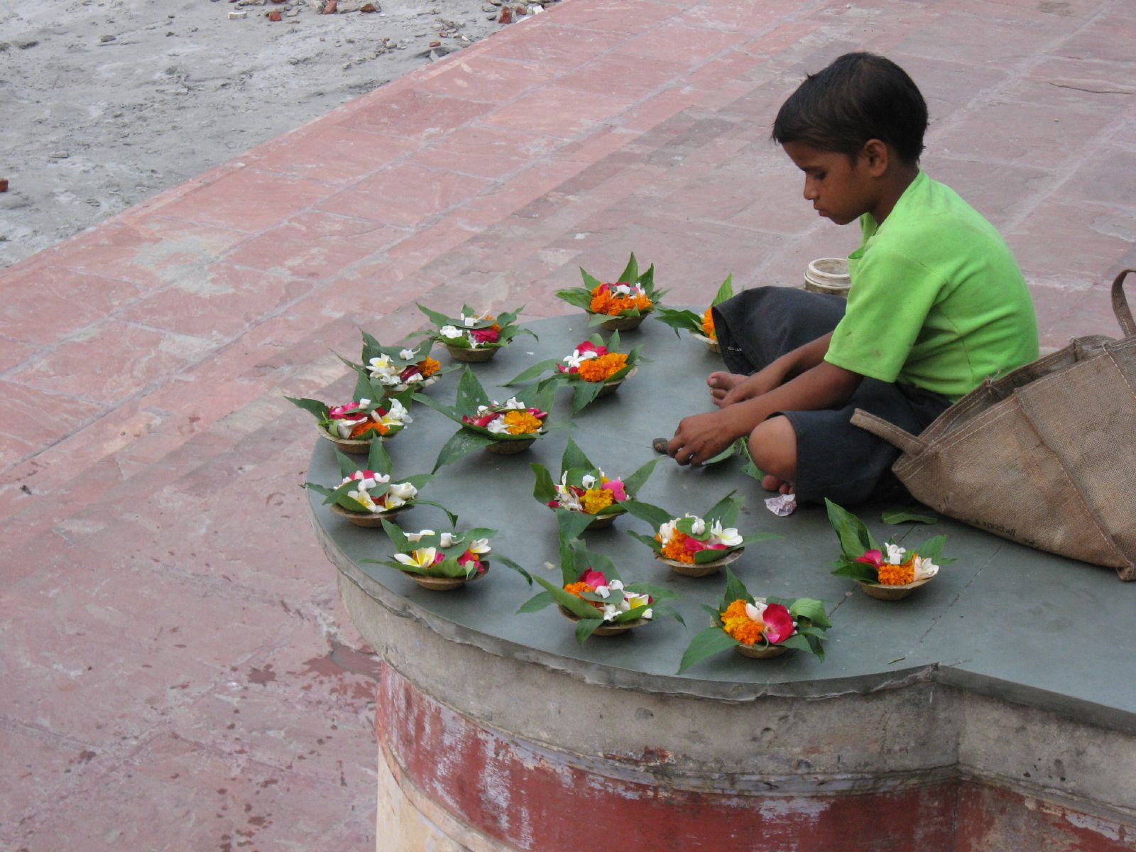 A boy selling flowers on the banks of Ganges, Rishikesh.